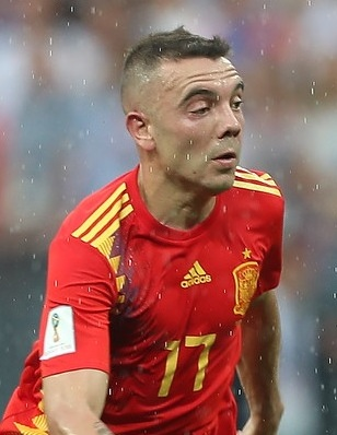 Iago Aspas playing for Spain in a 2018 FIFA World Cup game against Russia.